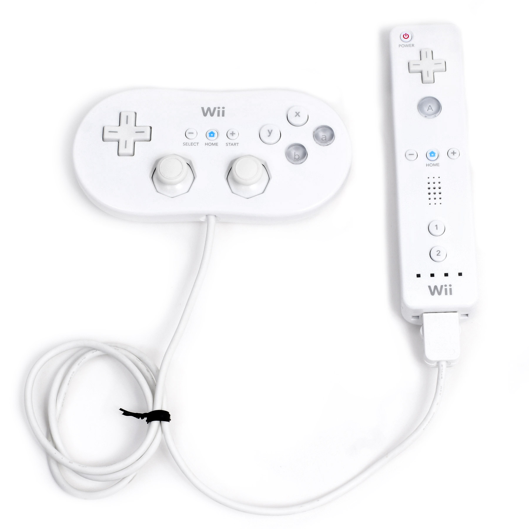 The Classic Controller, for the Wii. Hooked up to the Wiimote.